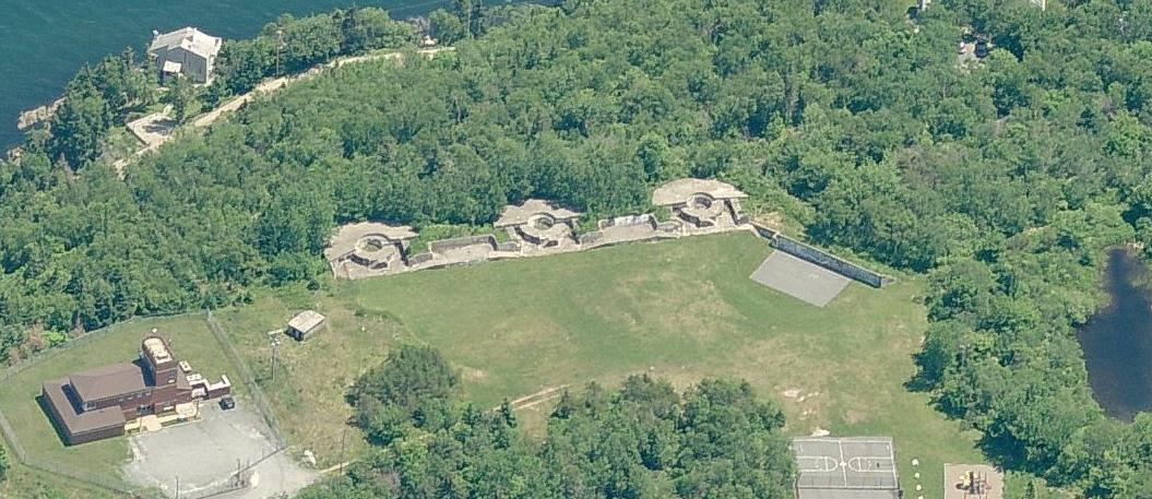 Connaught battery with adjacent Coast guard station